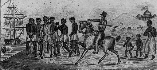 Title: United States slave trade, 1830 Abstract/medium: 1 print : engraving on wove paper ; 10 x 17 cm. (plate)